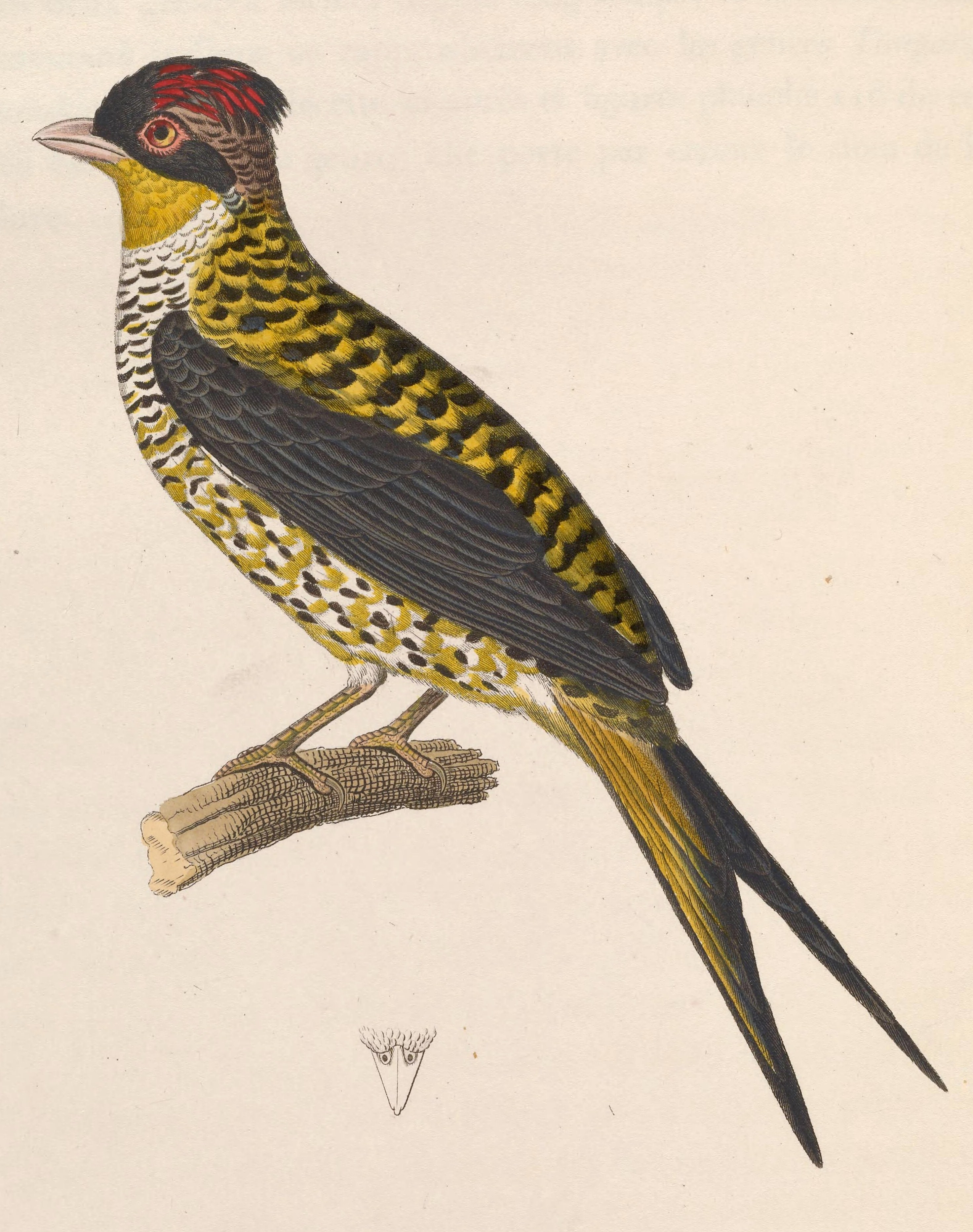 « Phibalura flavirostris » = Phibalura flavirostris (Swallow-tailed Cotinga) - adult male